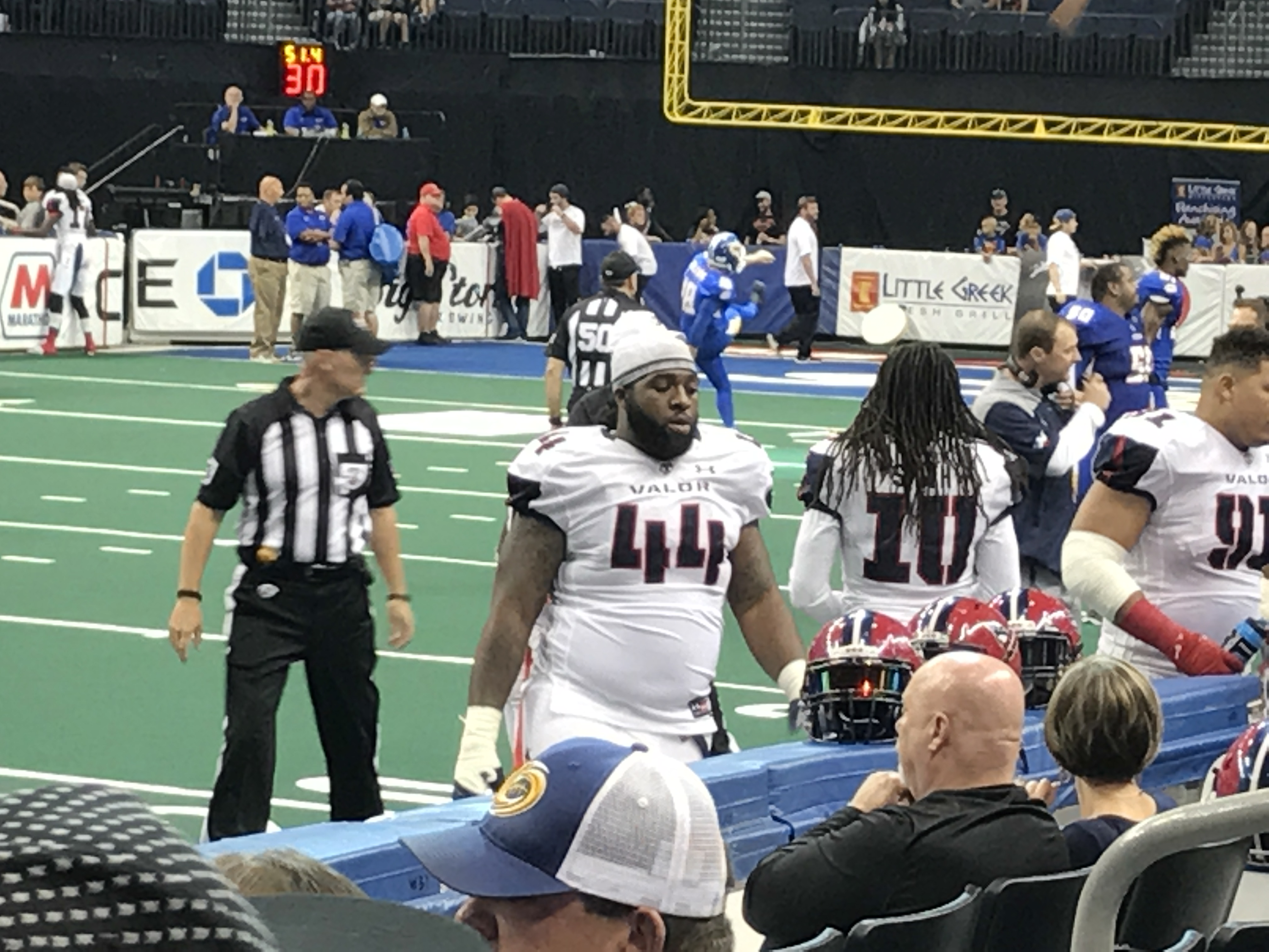 Will Corbin